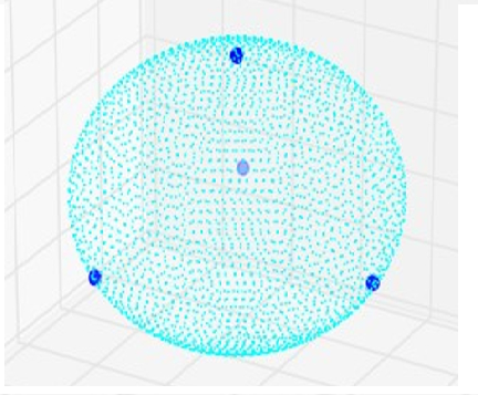 4 elektroni oblikujejo tetraeder.